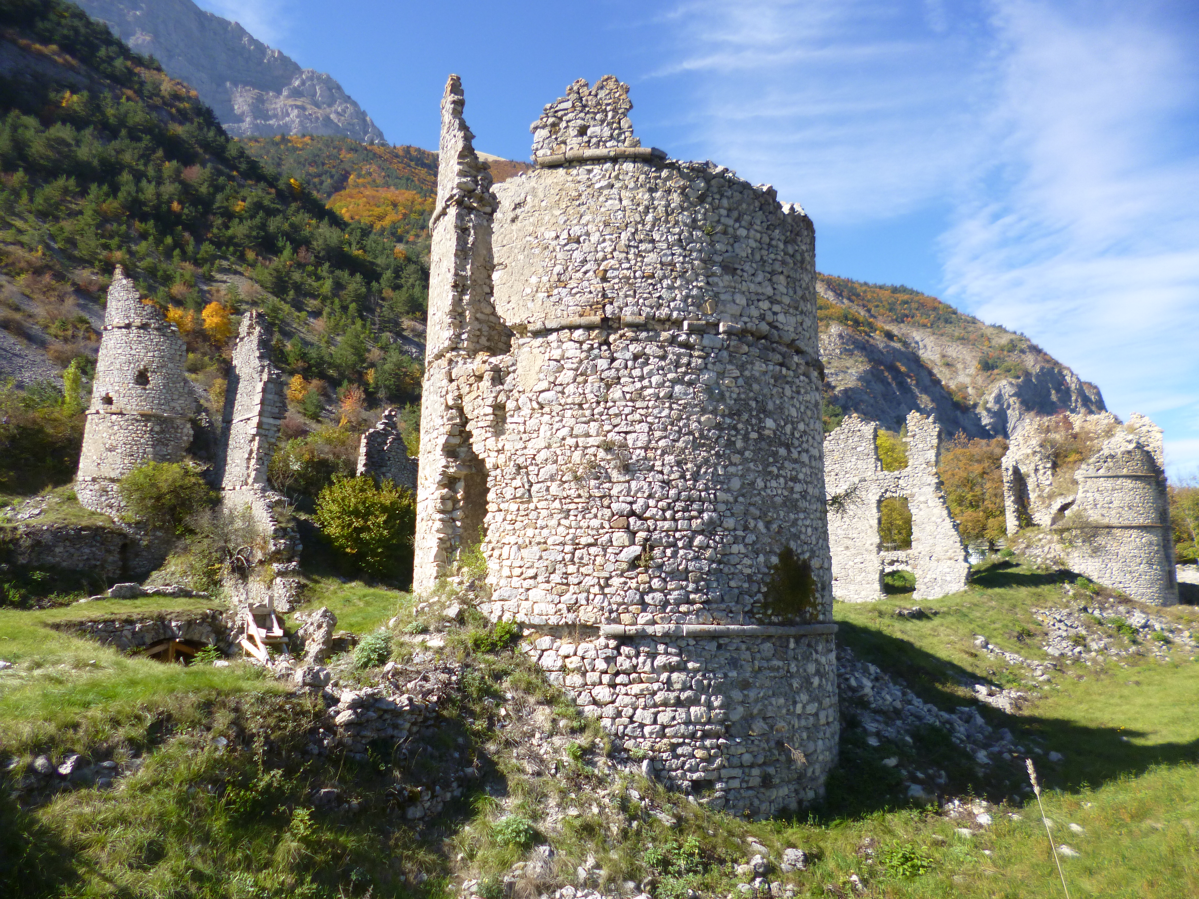 The ruins of the Castle of Lesdiguières in Le Glaizil (Hautes-Alpes, France). Built in the 14th Century, destroyed by a fire hazard in the 17th Century.